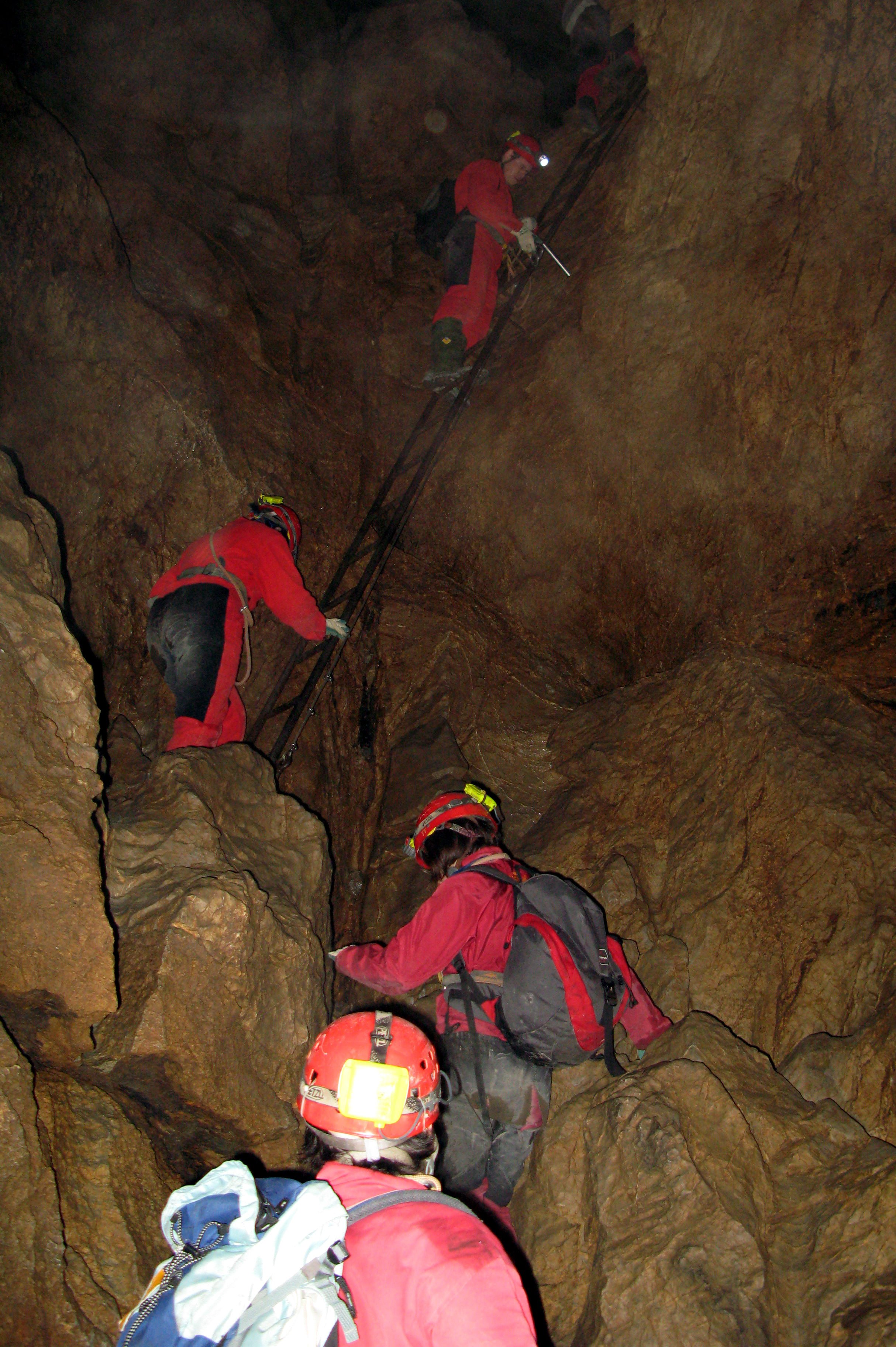 Speleologues in the Hölloch Cave